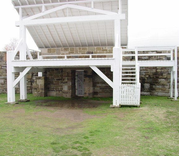 Gallows at Ft Smith Historical site